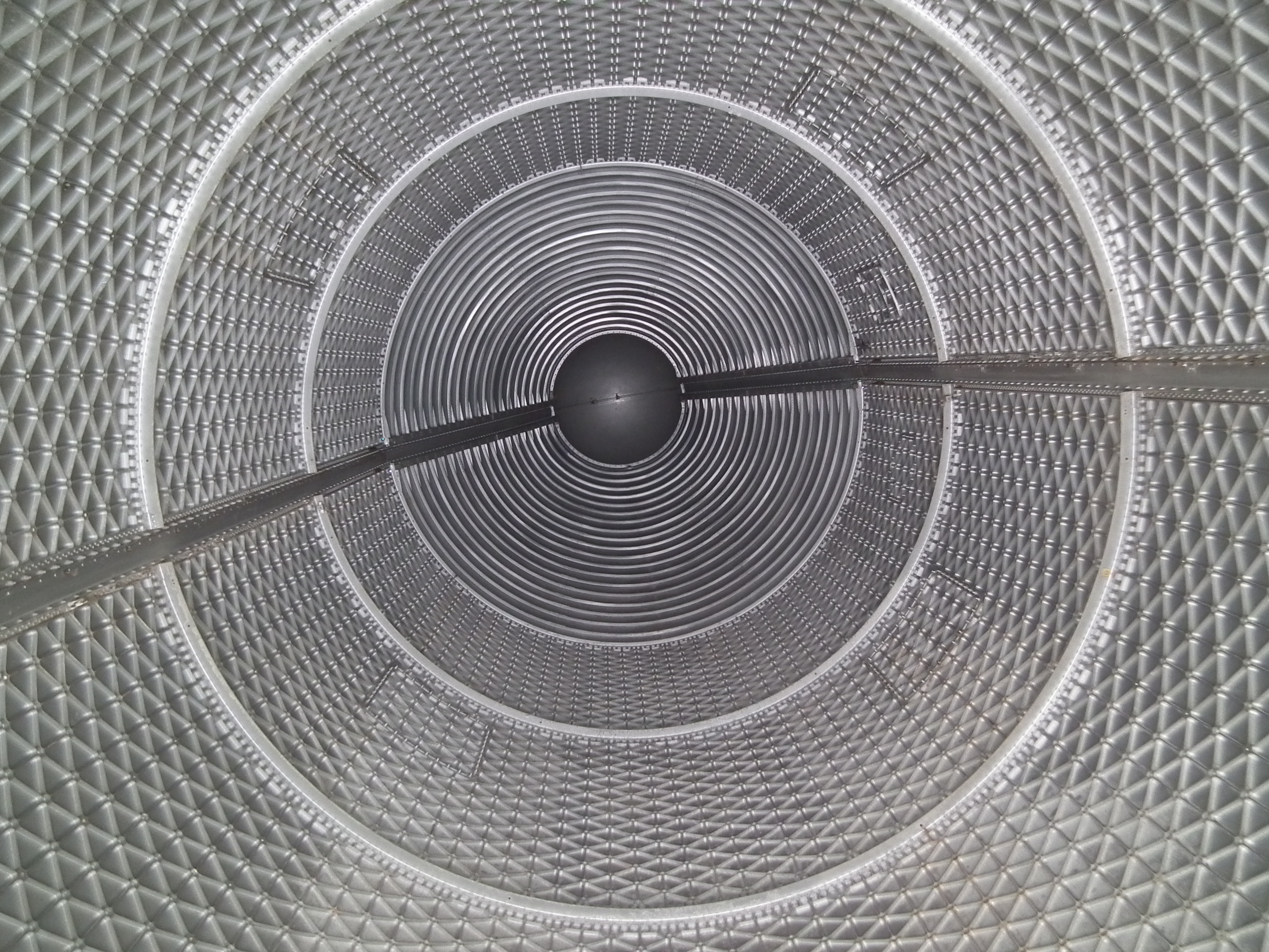 Full size heat shield of PSLV displayed at HAL heritage centre and aerospace museum bangalore Inside of a Full size heat shield of PSLV